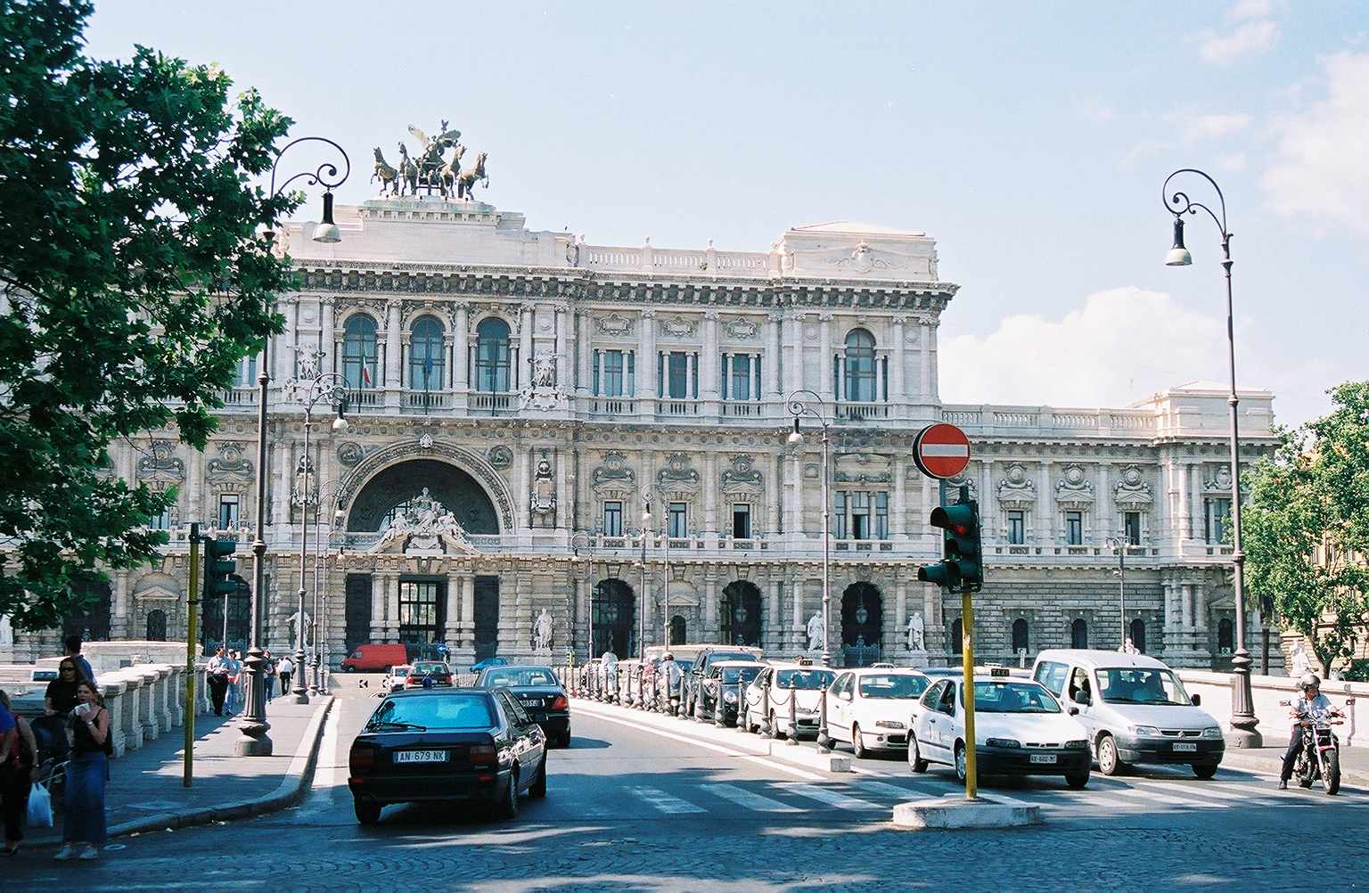 The Courthouse (dibbed "Il Palazzaccio, i.e. "the Ugly palace") in Rome, Italy.